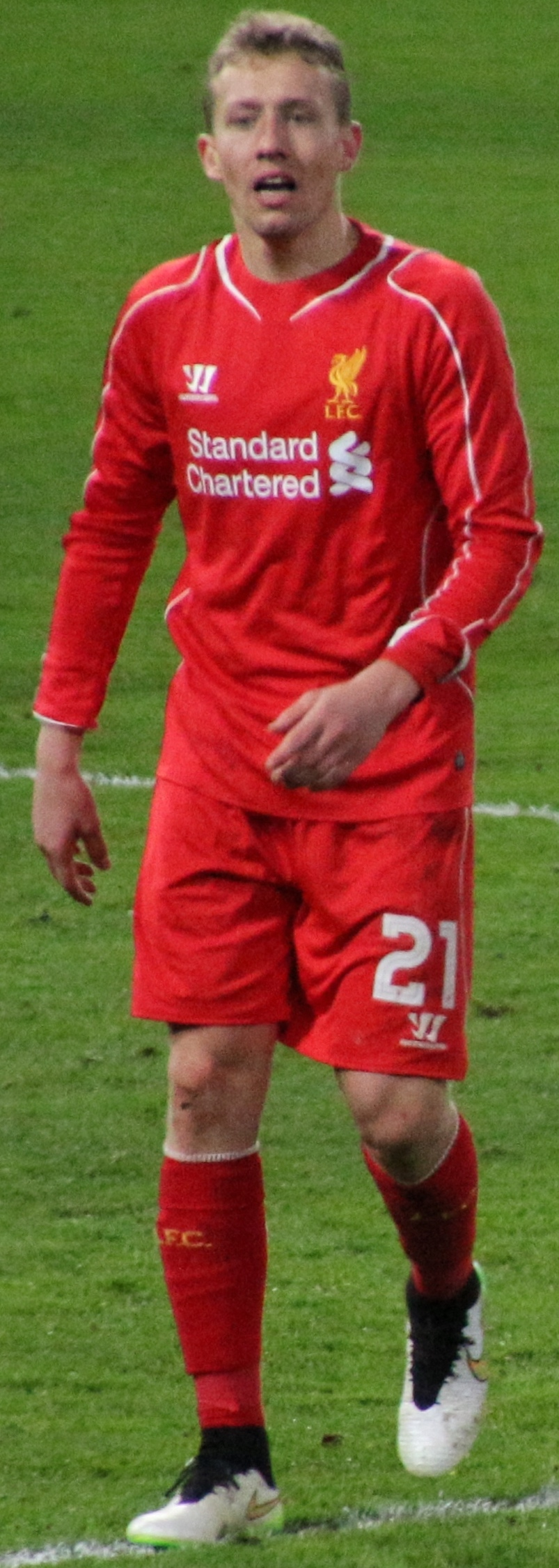 Chelsea 1 lLiverpool 0 (2-1 agg) Capital One Cup semi final 2nd leg On our way to Wembley!